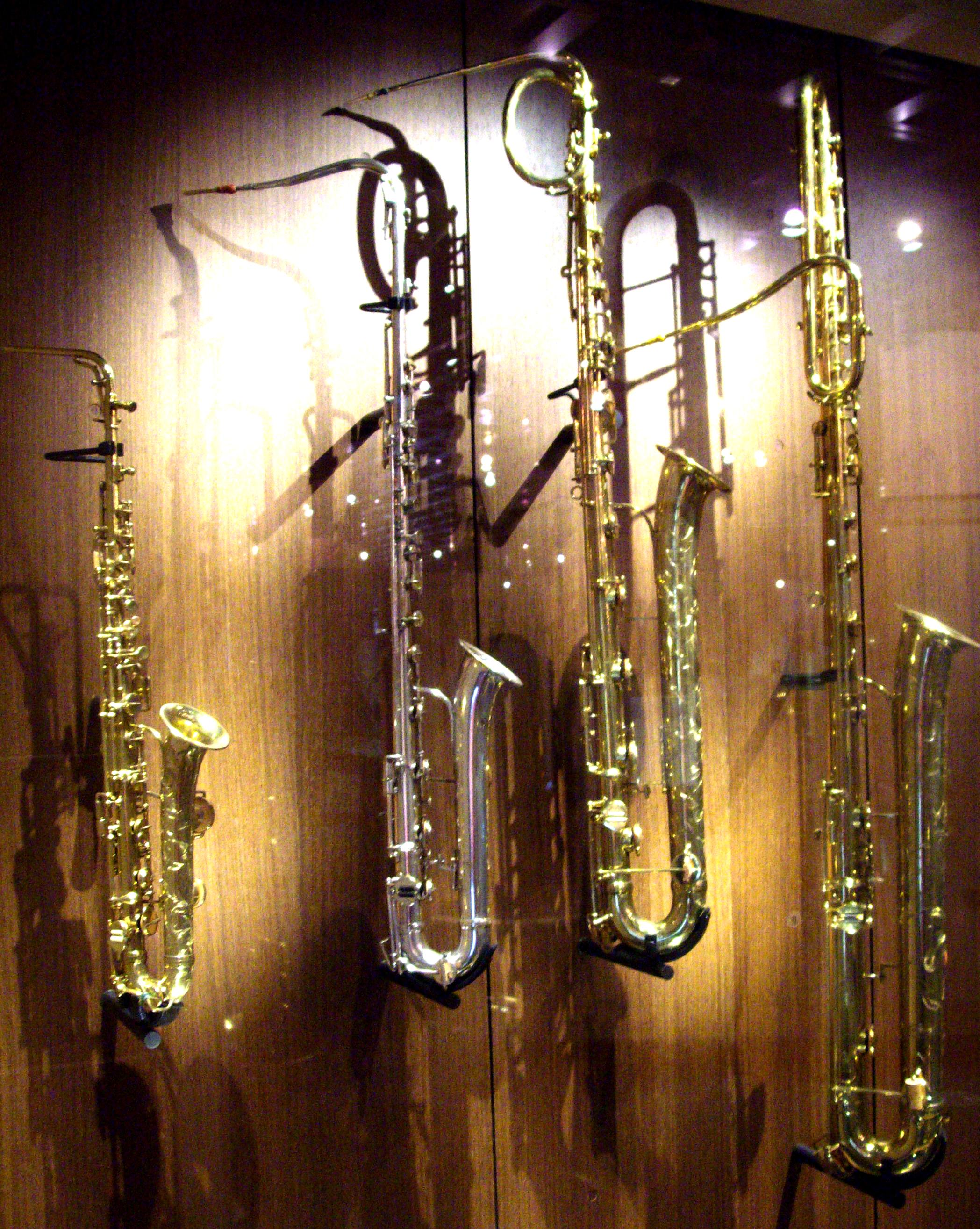 Four rothophones - windwood musical instruments